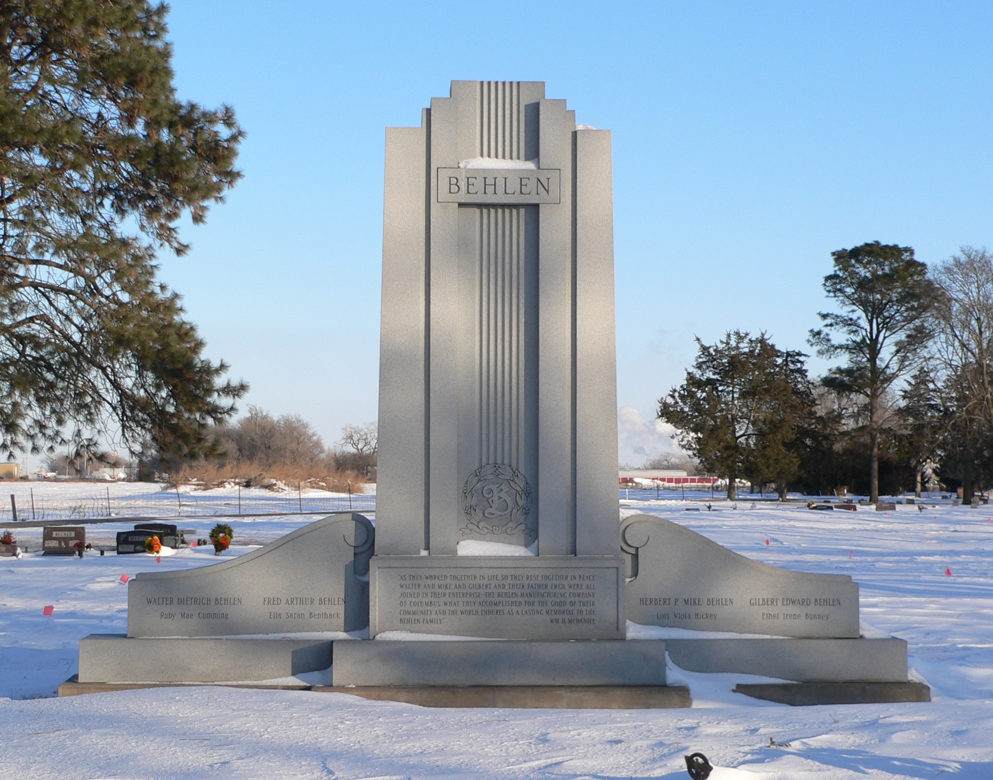 Behlen monument in Columbus Cemetery, Columbus, Nebraska. The monument marks the graves of Walter Behlen, his father Fred, and his brothers Herbert (Mike) and Gilbert, founders of the Behlen Manufacturing Company in Columbus.